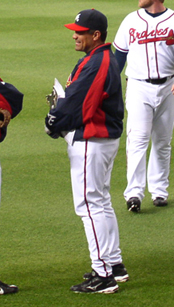 Picture I took of Eddie Pérez on 5-10-07 04:09, 15 May 2007 . . Chrisjnelson . . 174×307 (94,752 bytes)